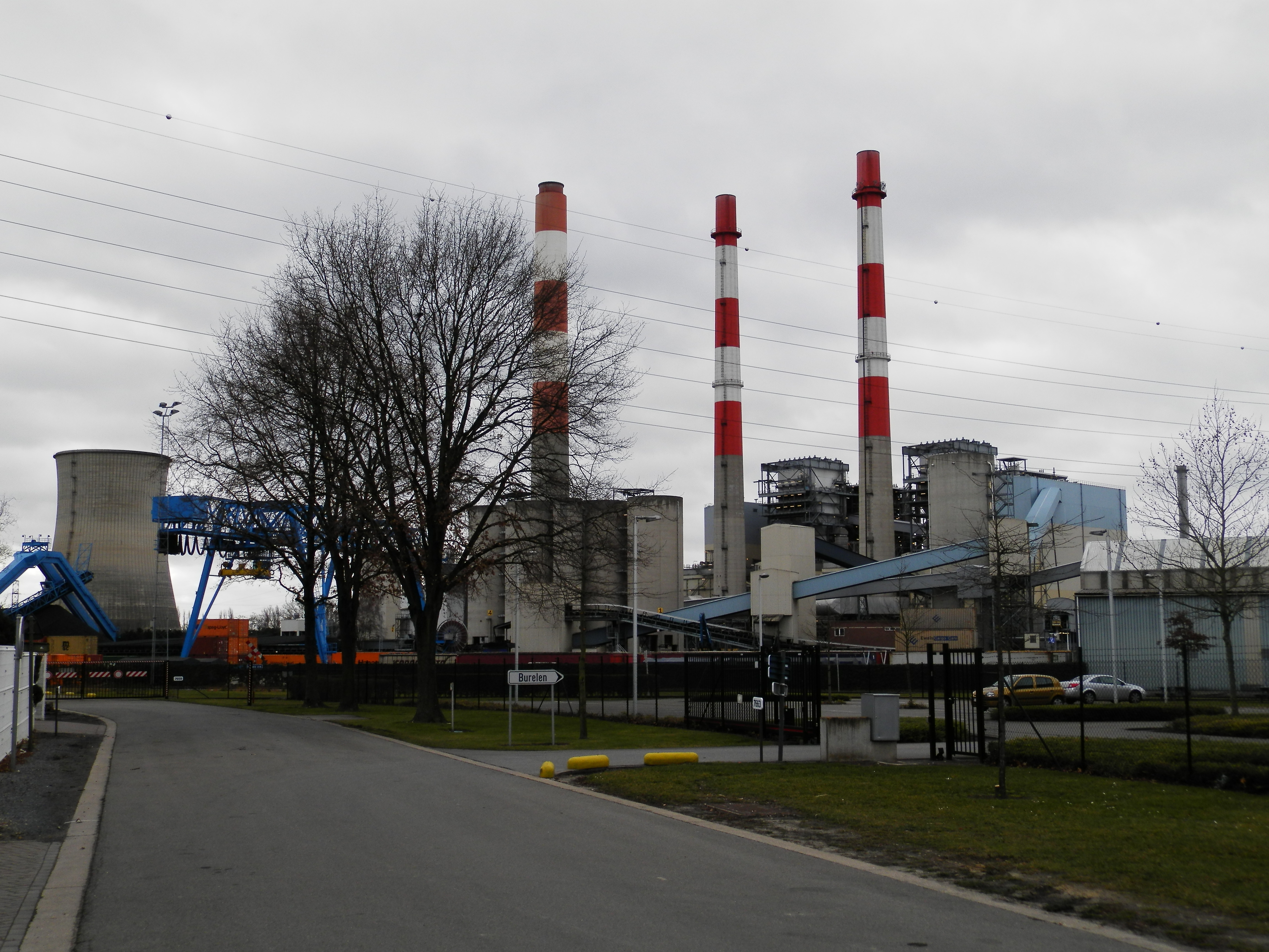 Langerlo